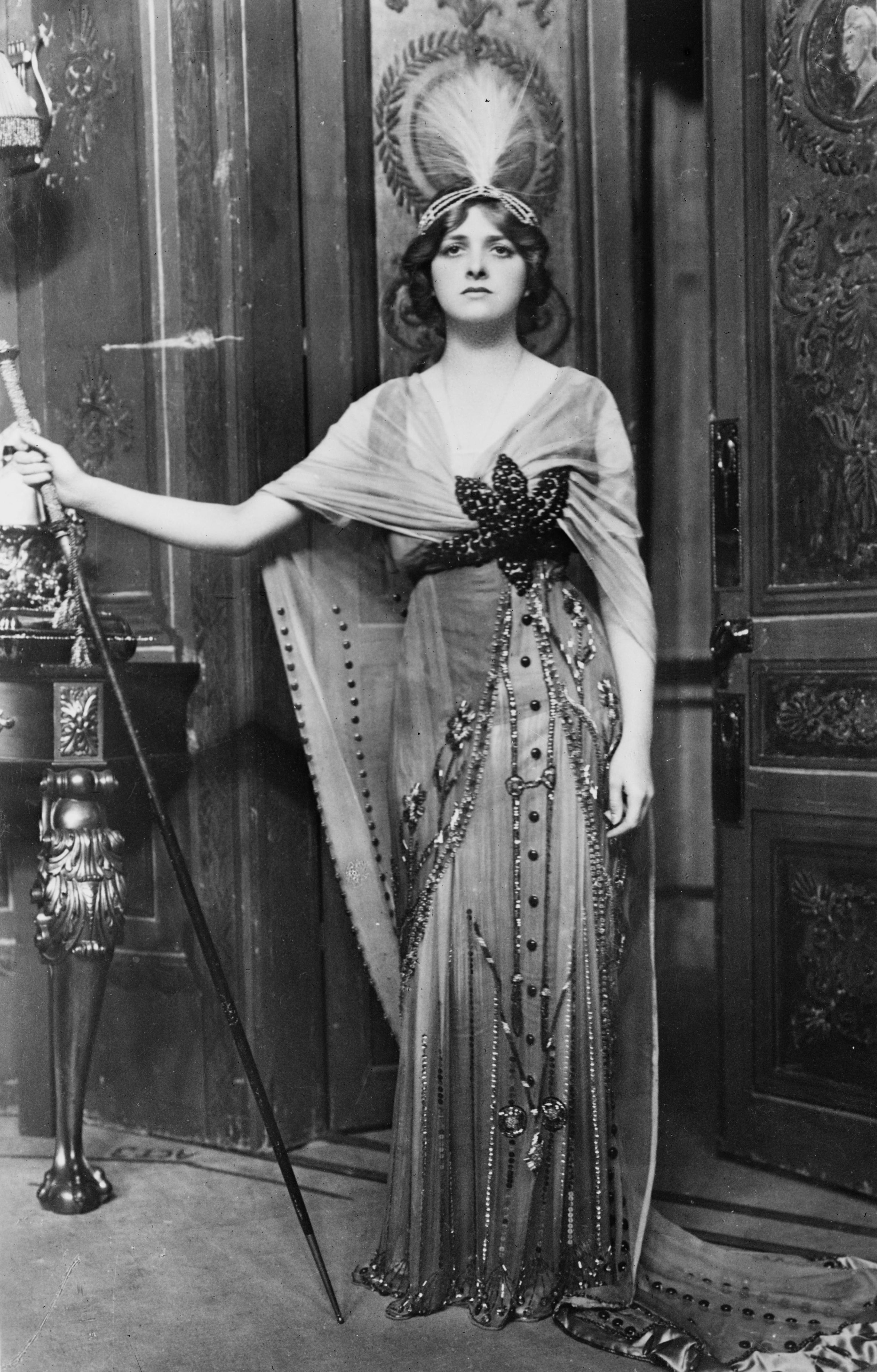 Gladys Cooper in fancy-dress costume